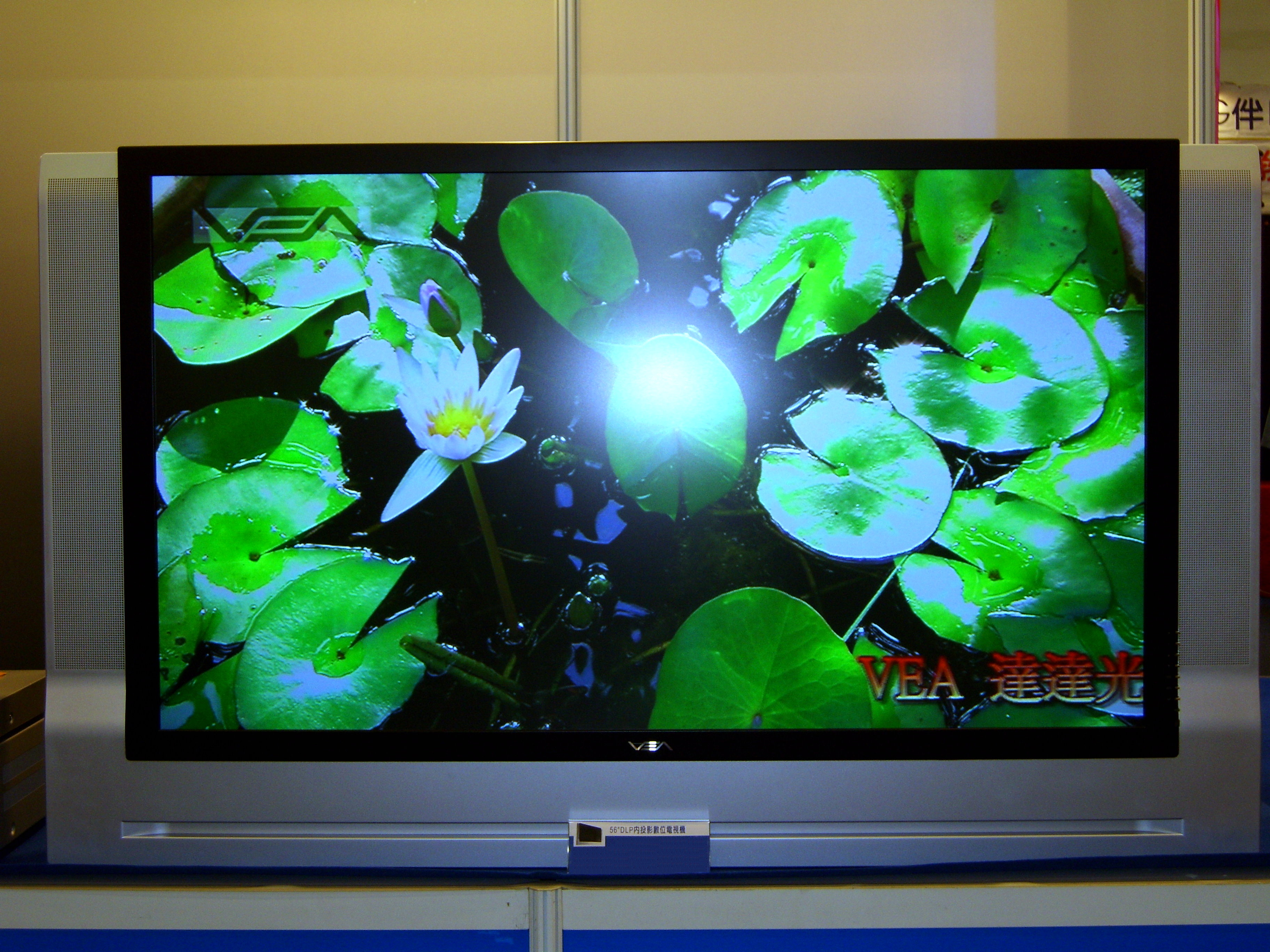 The 28th Taipei Audio Video Fair: A 56' DLP TV by La VEA in Taiwan.